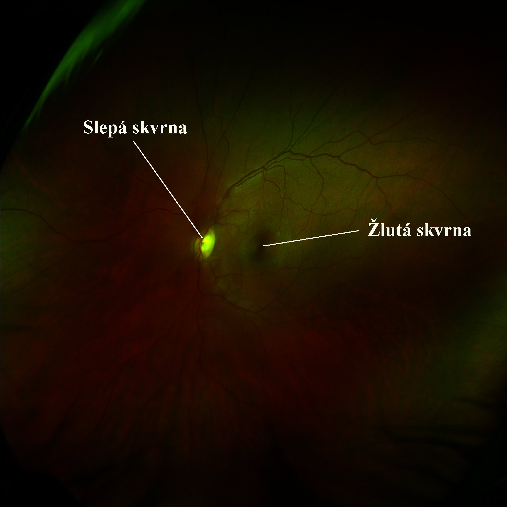 Instead of getting those crazy eye drops to dilate your eyes so the doctor can look at your retina, they just take a high-resolution digital picture. Much faster and easier. And they keep them on record so they can compare photos from year to year and better diagnose potential problems. The bright spot in the middle is the optic nerve (the blind spot); the darker spot next to the optic nerve is the macula, a small crater in the retina with a higher density of rods and cones, making it the best seeing portion of the eye.